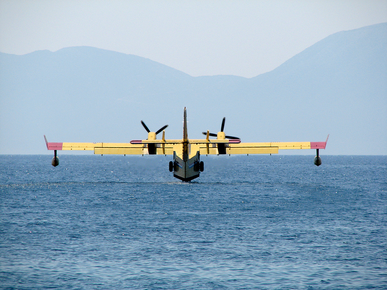 Canadair CL-415 firefighting airplane right before refilling its water tank in Živogošće, Croatia.